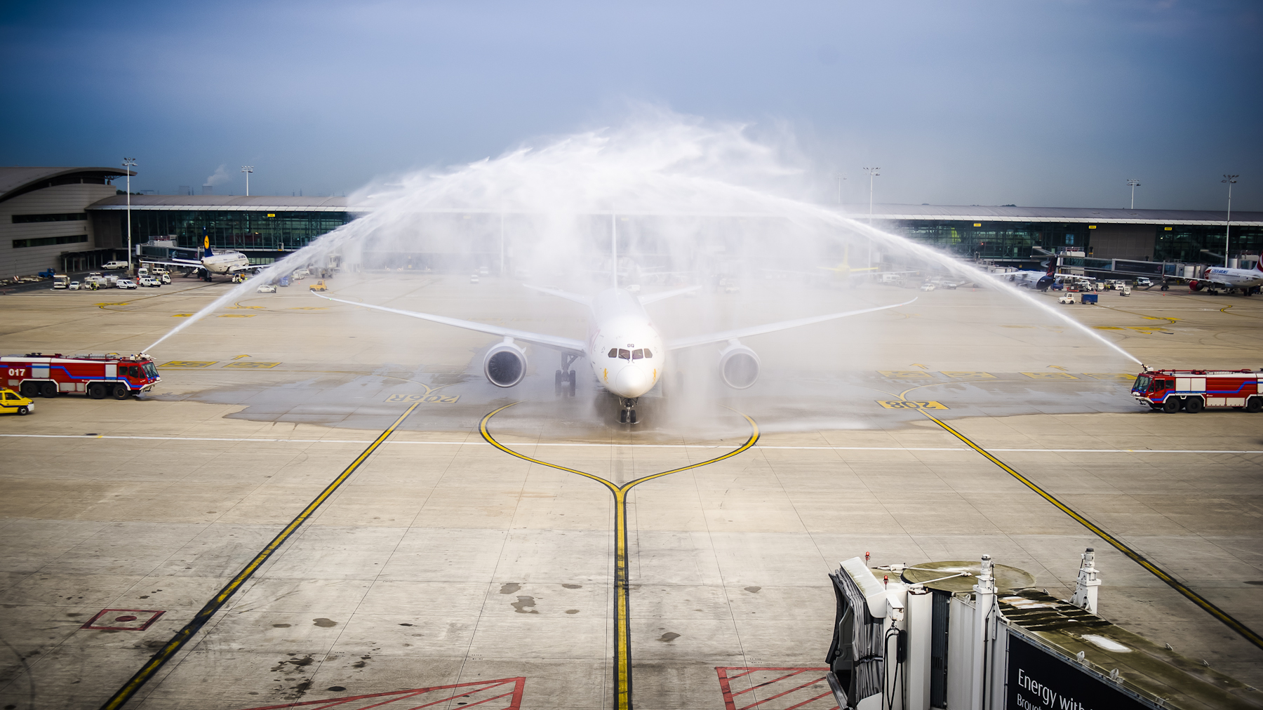 by Thomas Vandermeiren